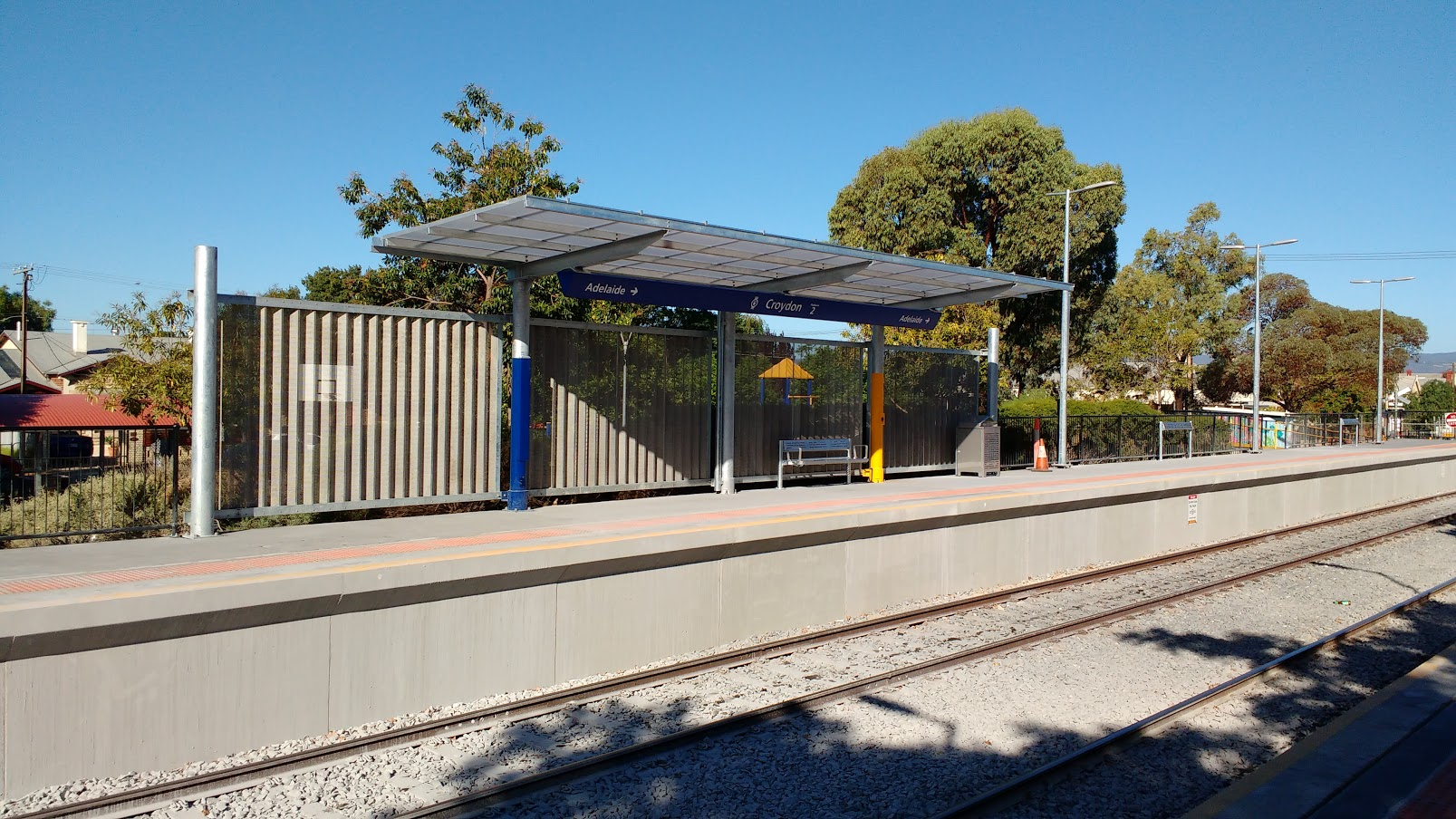 City-bound platform of Croydon Station after 2018 rebuild